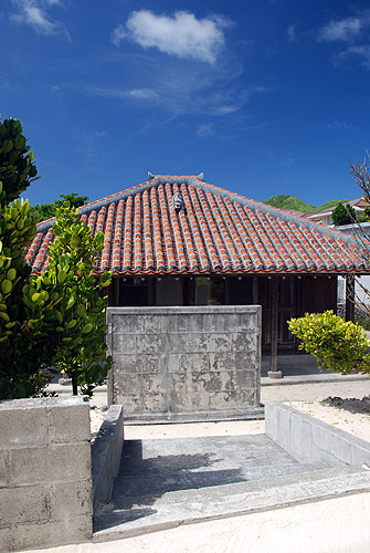 The house in Tonaki, Okinawa, Japan